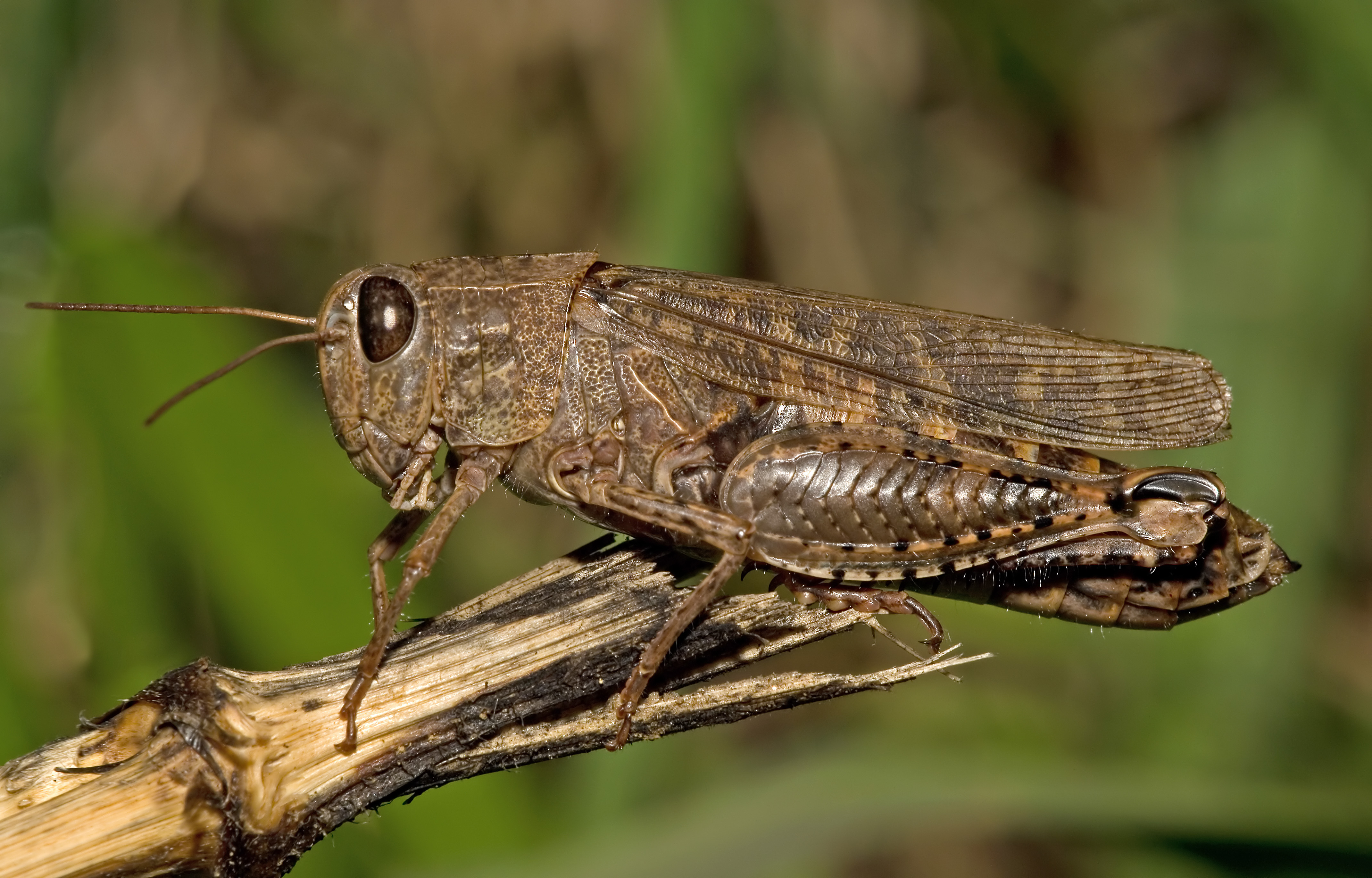 Please report references to kulacgmx.at.